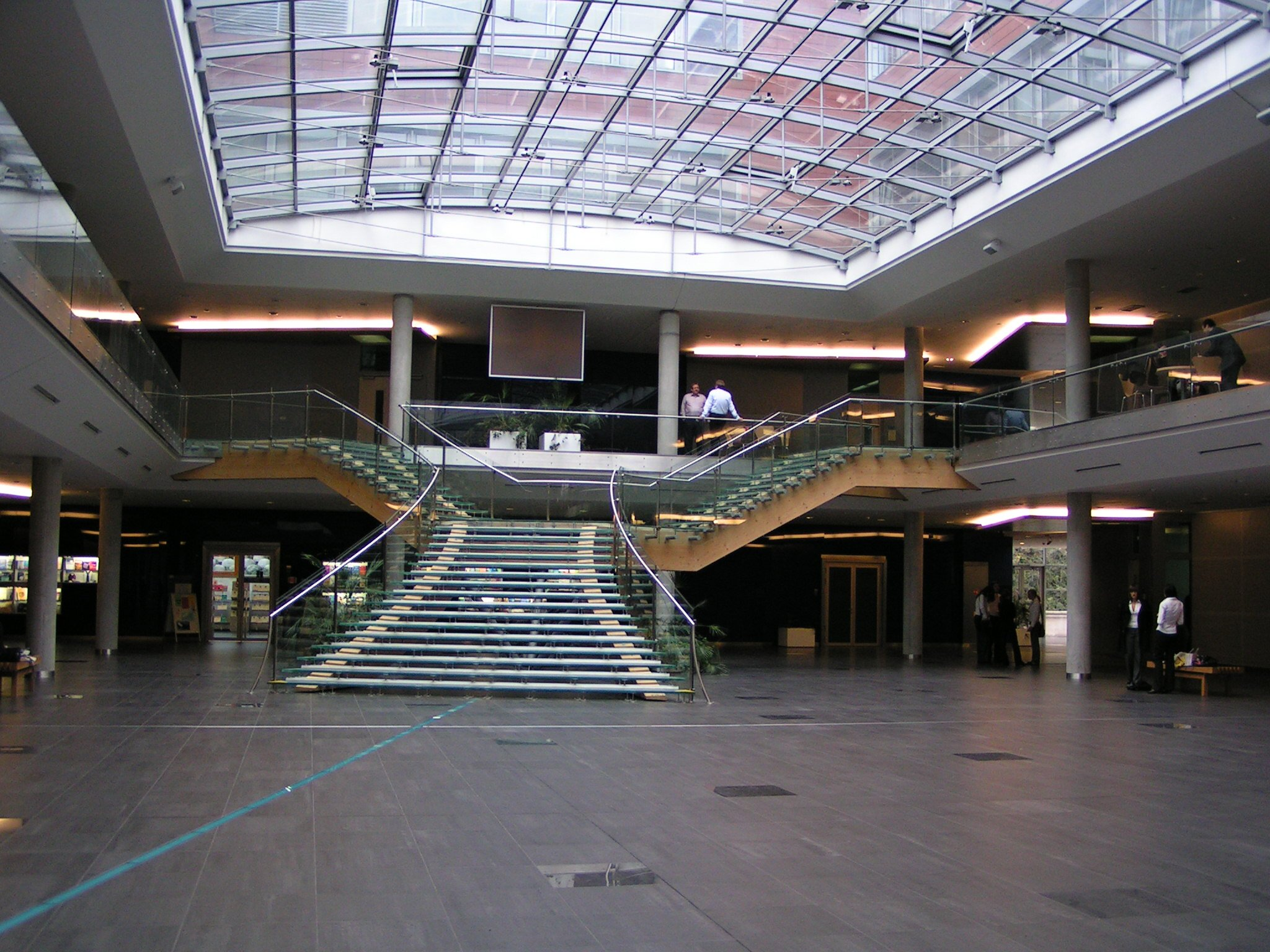 The newest building called Rajská